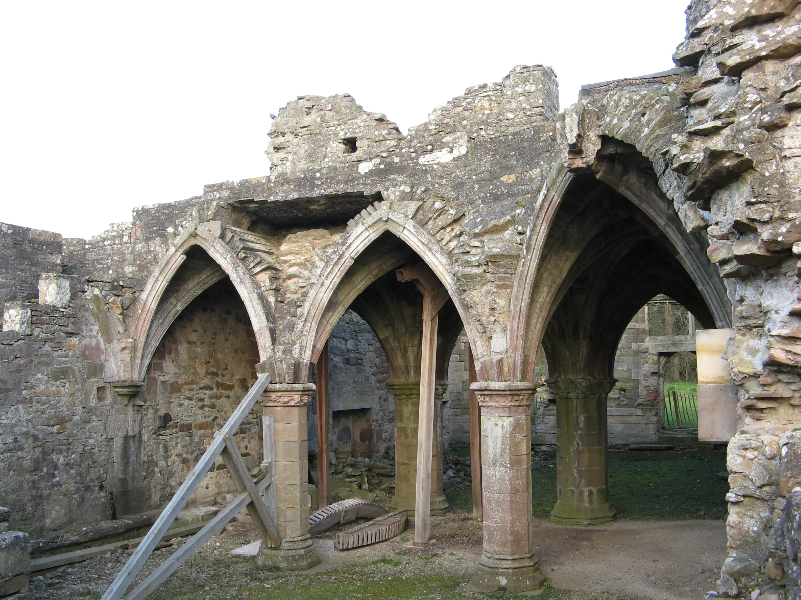 Balmerino Abbey, Fife, Scotland. Chapter house vaulting.